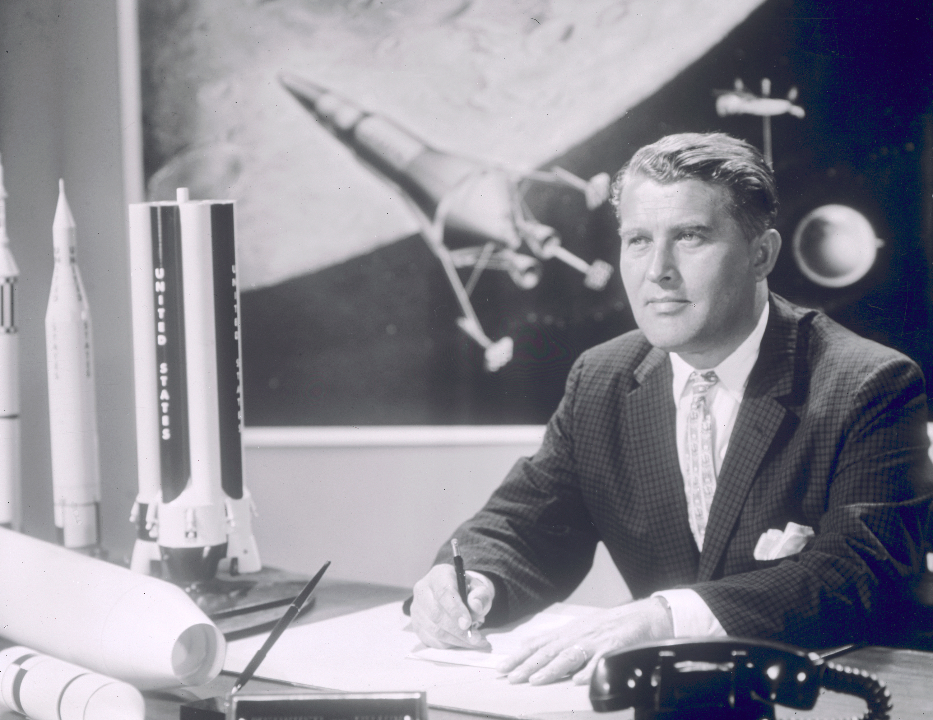 Dr. Wernher von Braun is in his office, with an artist's concept of a lunar lander in background and models of Mercury-Redstone, Juno, and Saturn I. Dr. Wernher von Braun, the first MSFC Director, led a team of German rocket scientists, called the Rocket Team, to the United States, first to Fort Bliss/White Sands, later being transferred to the Army Ballistic Missile Agency at Redstone Arsenal in Huntsville, Alabama. They were further transferred to the newly established NASA/Marshall Space Flight Center (MSFC) in Huntsville, Alabama in 1960, and Dr. von Braun became the first Center Director.